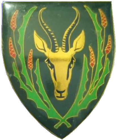 SADF 5 SAI emblem